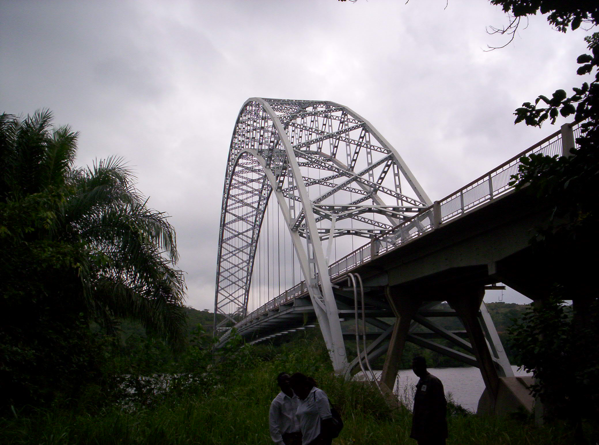 The Volta bridge at Adomi picutured from Mami water kope